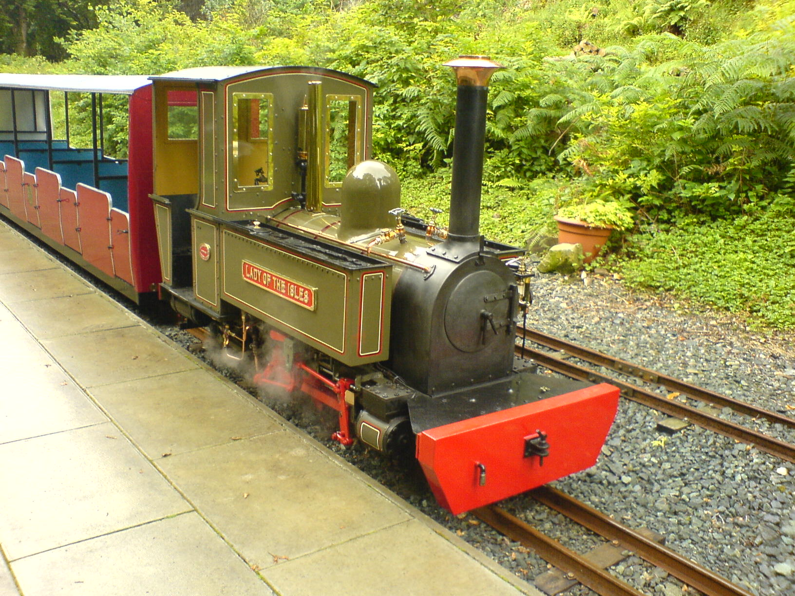 Lady of the Isles steam locomotive on the 260mm gauge Isle of Mull railway.